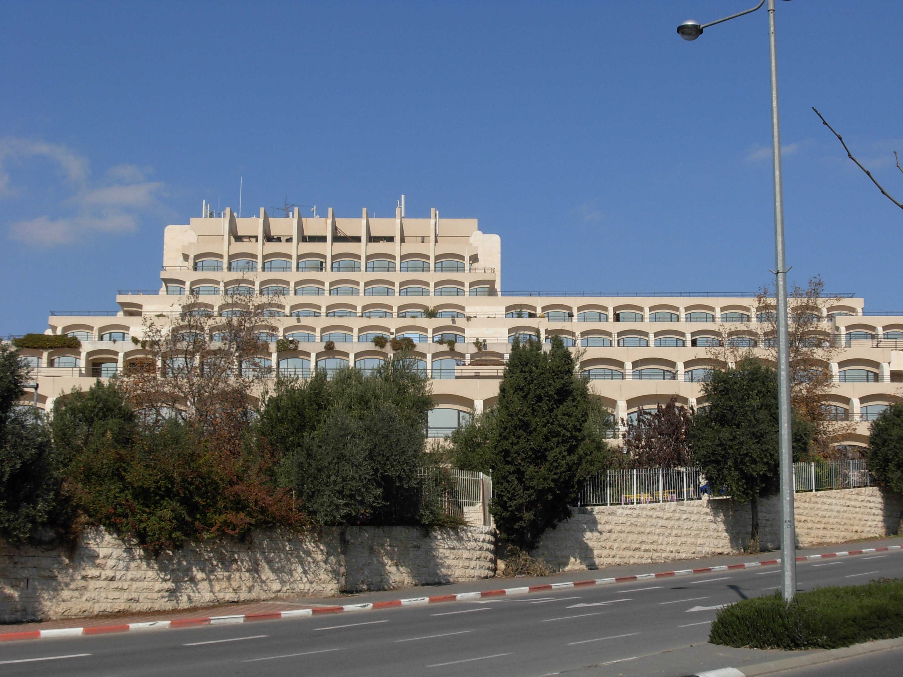 The Regency Jerusalem Hotel